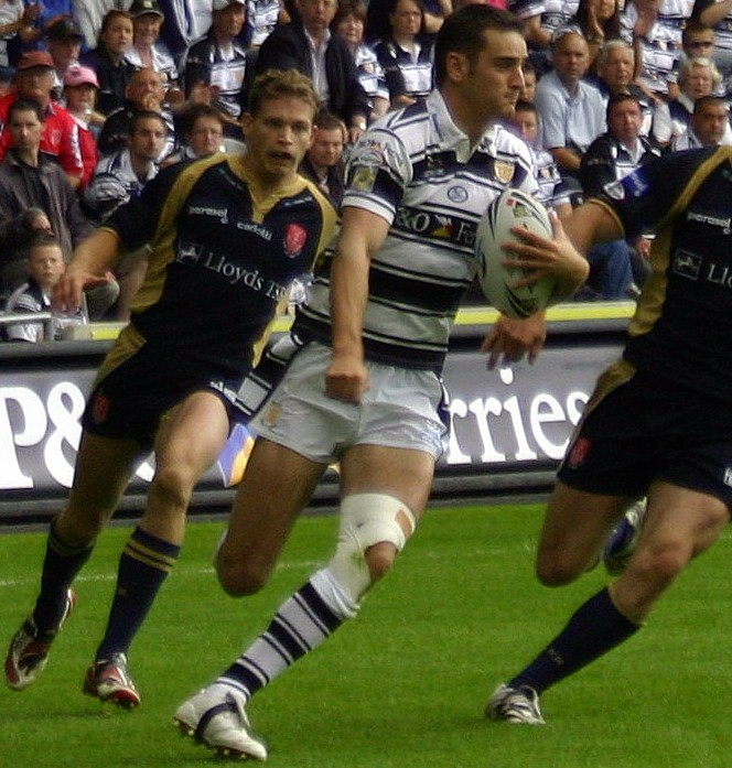 Craig Hall & Peter Fox